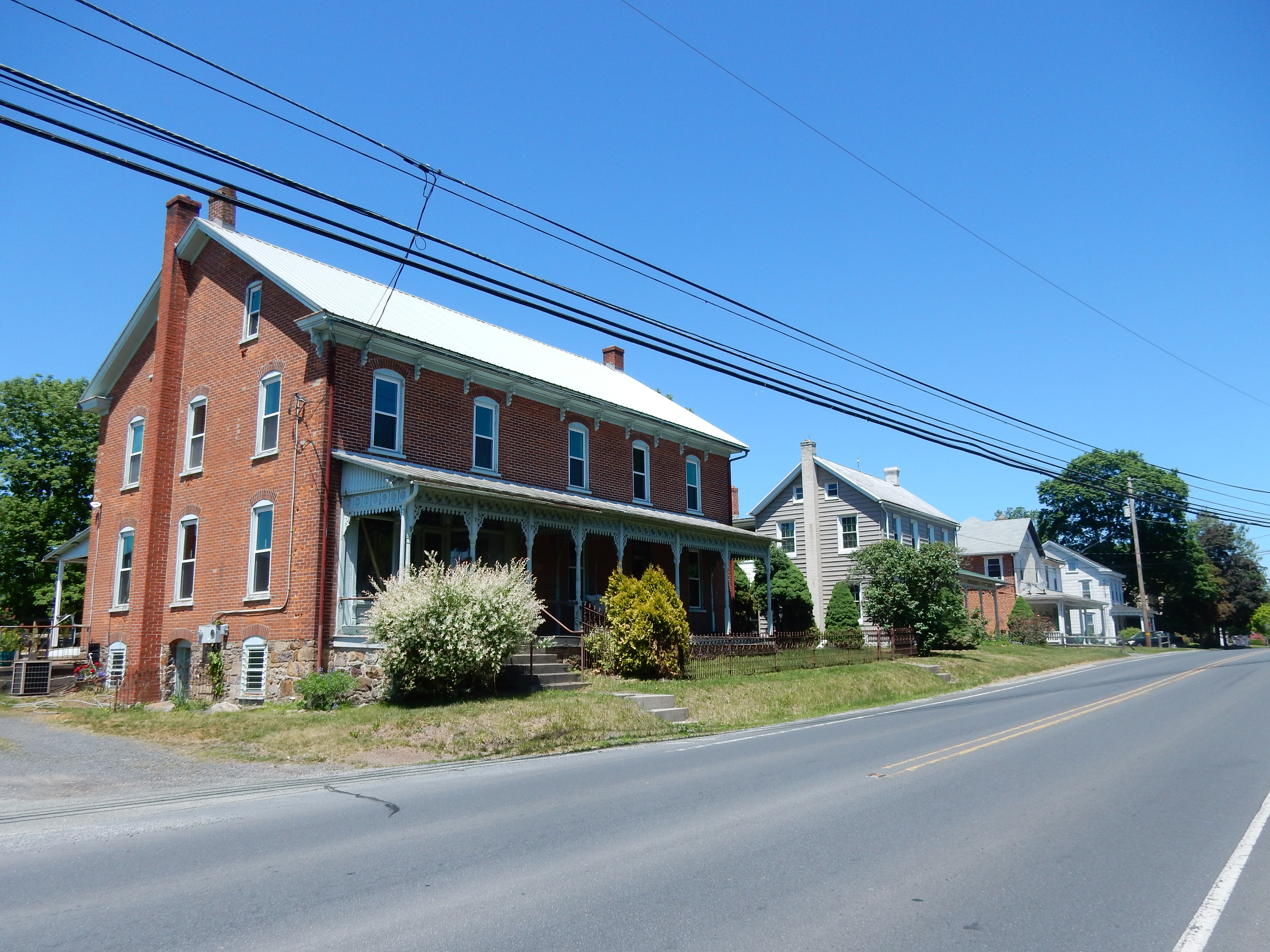 Chapel, Pennsylvania, 961 Gravel Pike. Corner of Shiffert Rd. This part of the village is in Berks County.